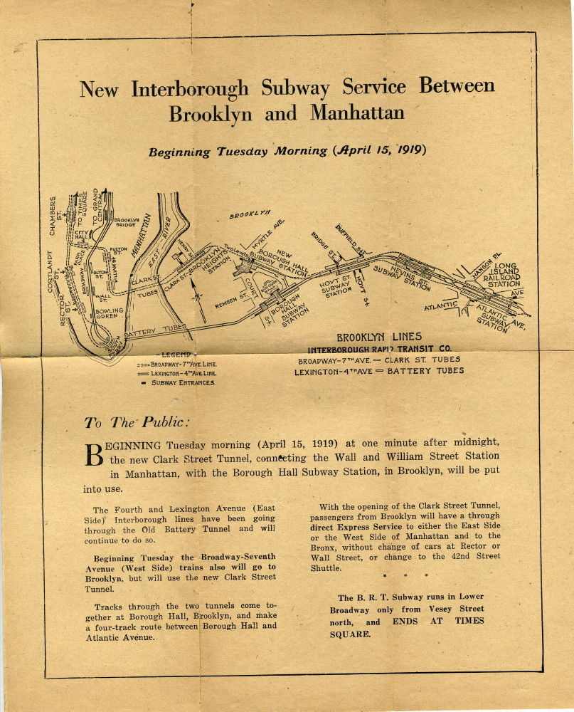 This poster was created to inform the public about the impending opening of the Clark Street Tunnel, extending additional subway service into Brooklyn. This service began on April 15, 1919.